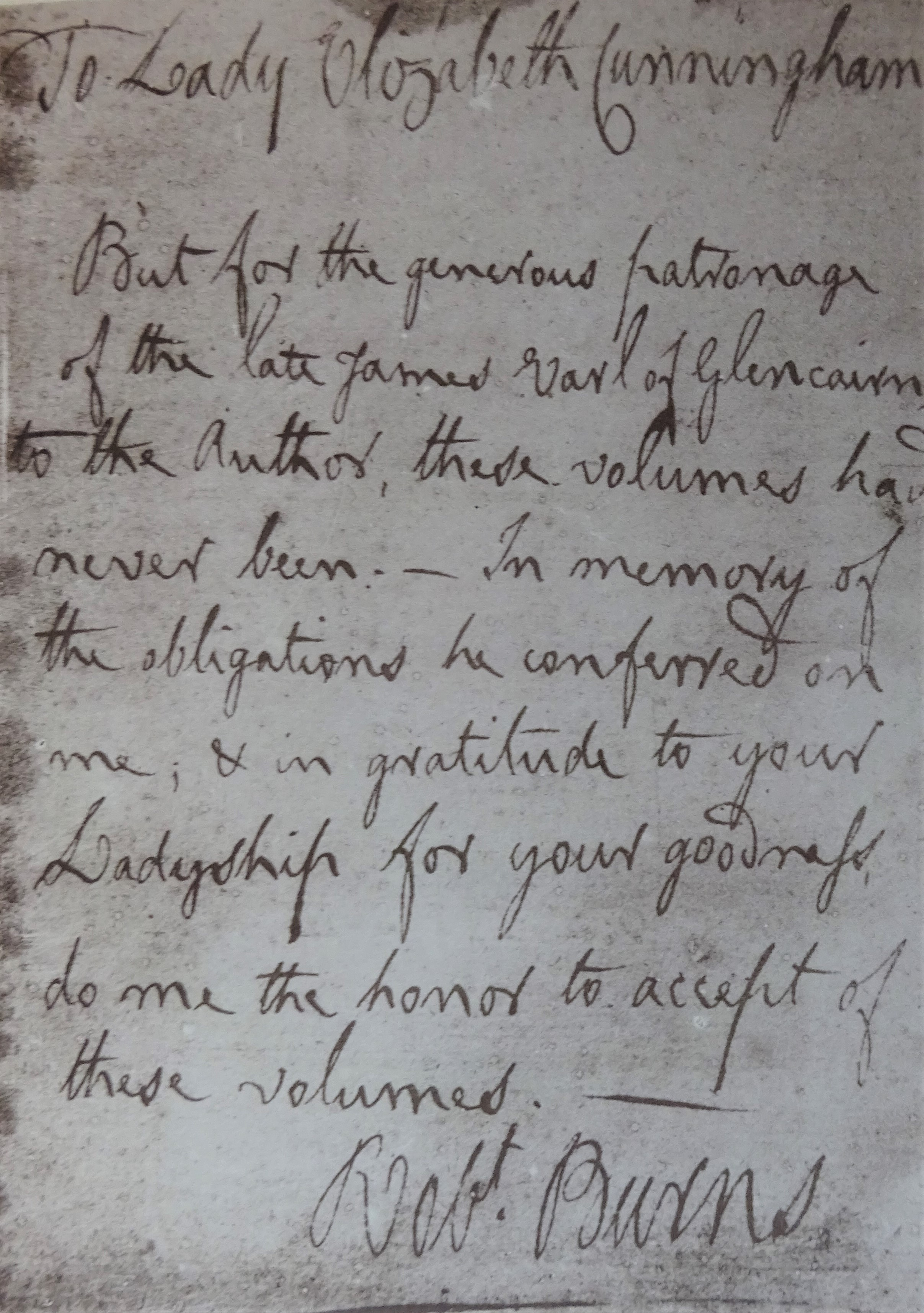 Robert Burns 1793 letter to Lady Elizabeth Cunningham presenting his volume of poems.